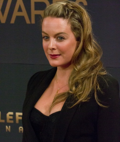 Julie LeBreton at the 2012 Genie Awards